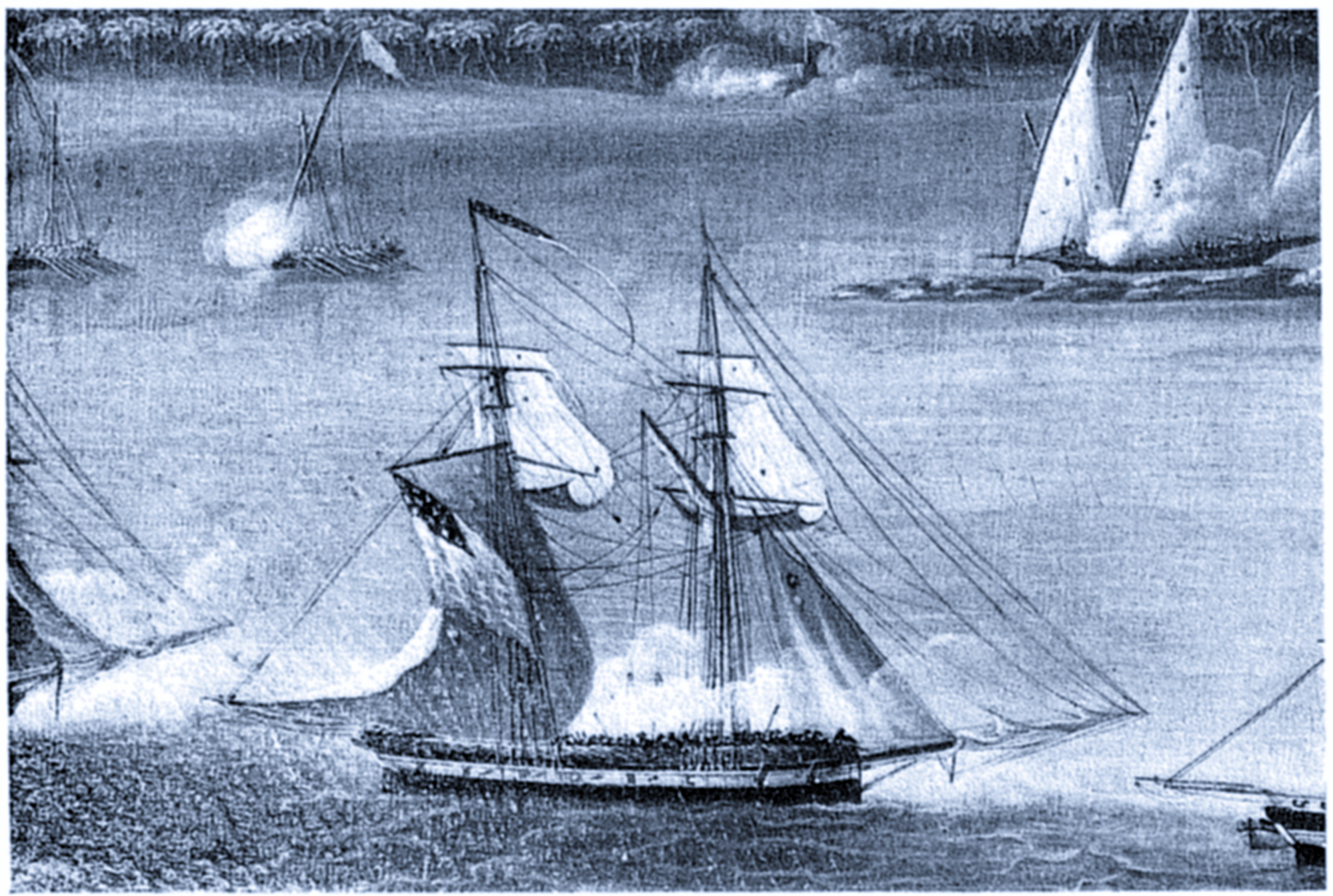 USS Nautilus (1799). Nautilus was a schooner launched in 1799. The United States Navy purchased her in May 1803, renaming her the USS Nautilus The plate is from Navy Document, Vol V. This plate mistakenly marked as USS Argus in the documents, but in fact is USS Argo. Ref: The history of the American sailing Navy: the ships and their development by Chapelle, Howard Irving